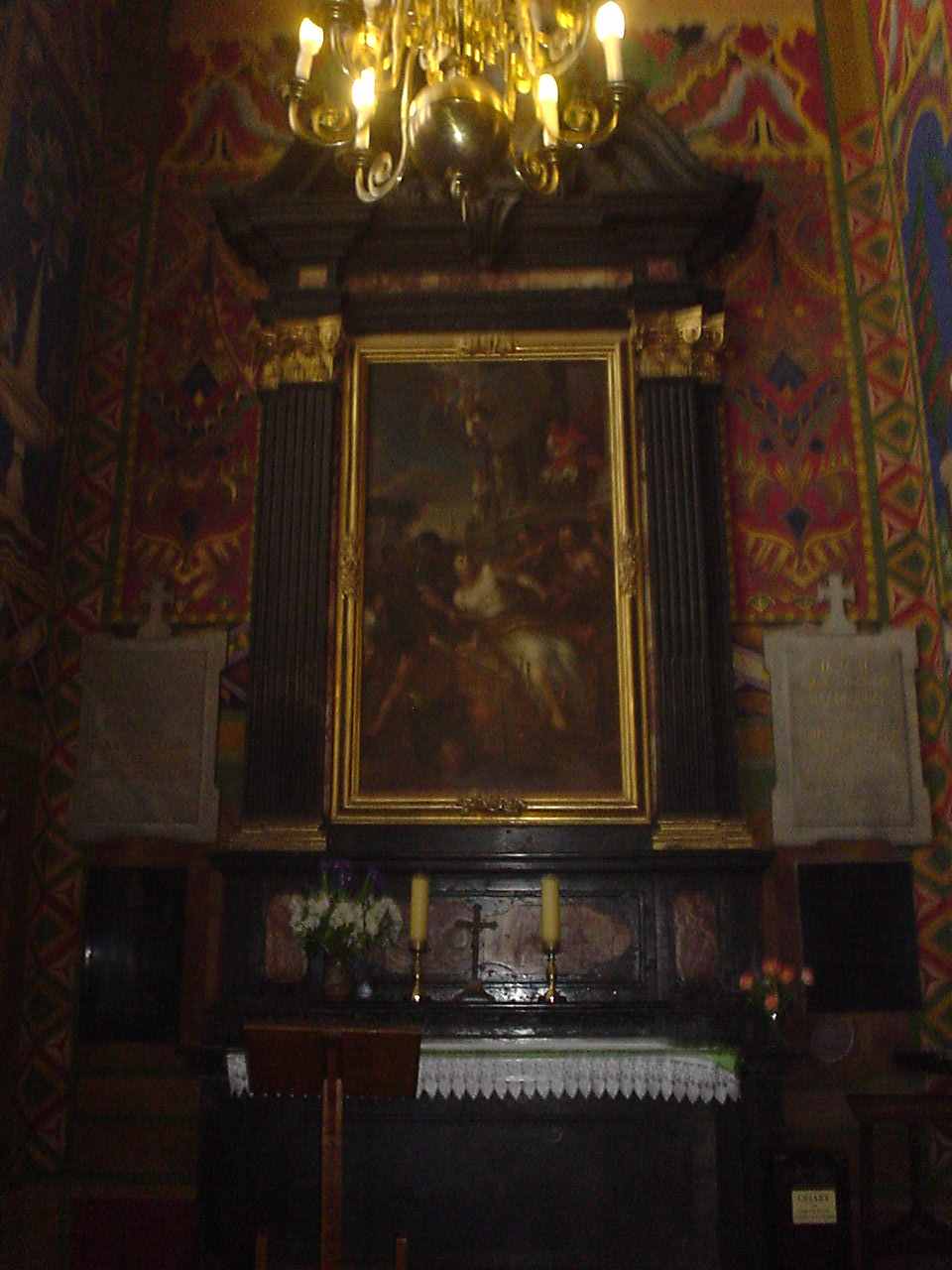 Chapel of St. Lawrence (Church of St. Mary in Kraków)